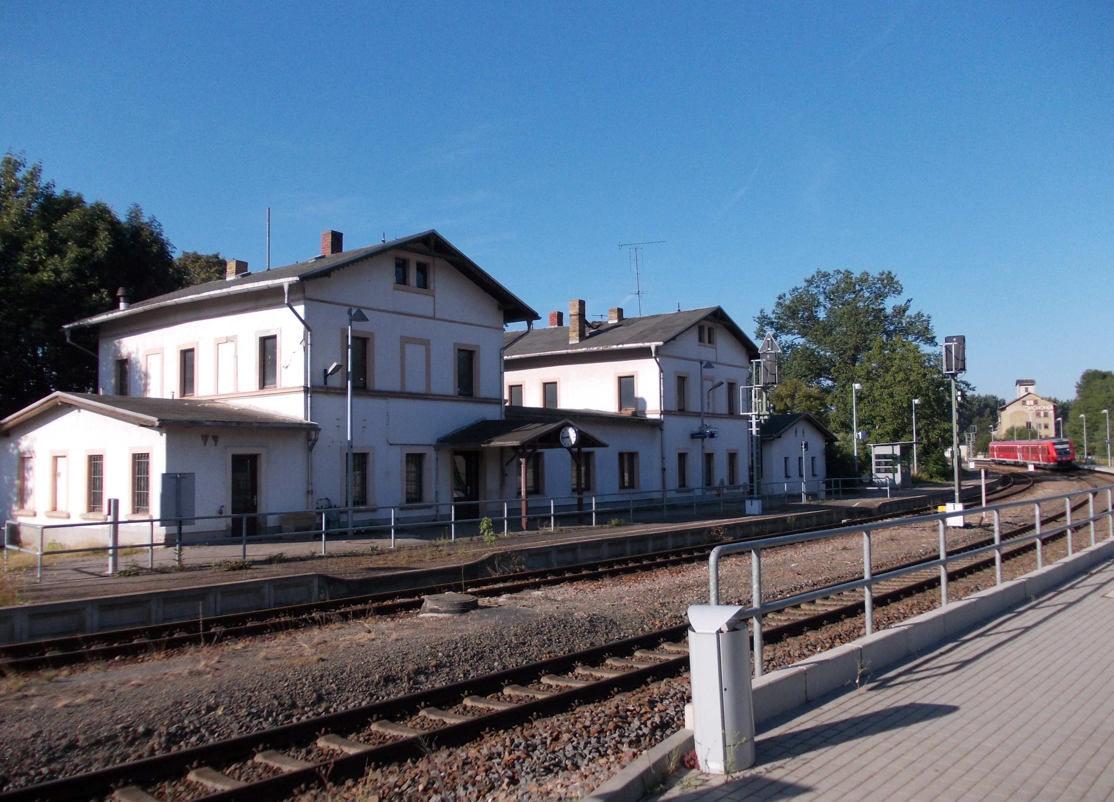 Nöbdenitz train station (district of Altenburger Land, Thuringia)